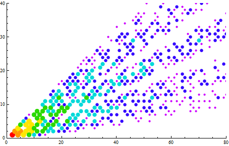 Generation of coprime numbers by the algorithm on Coprime